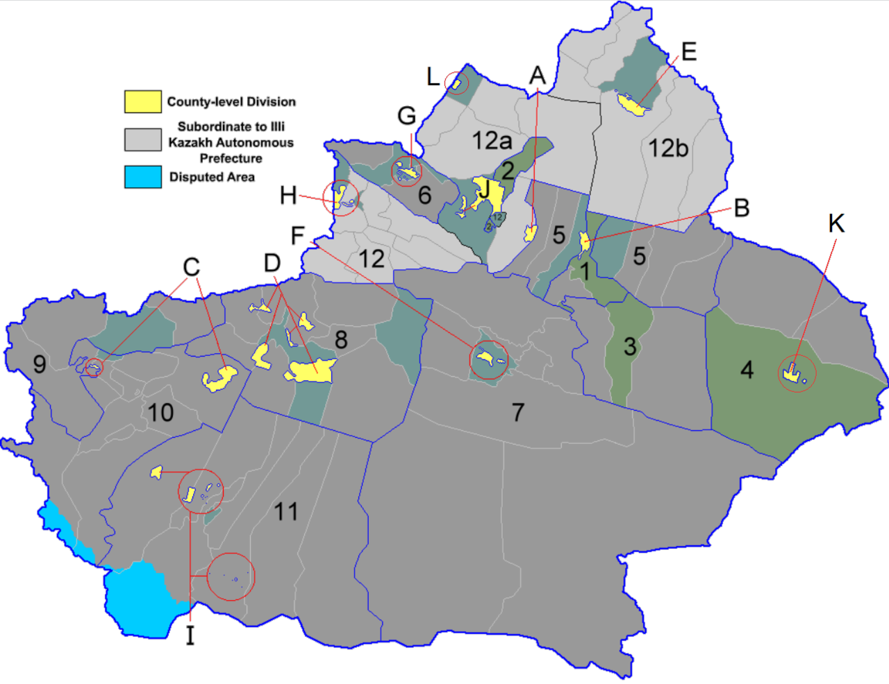 Map of prefectures of Xinjiang Autonomous Region